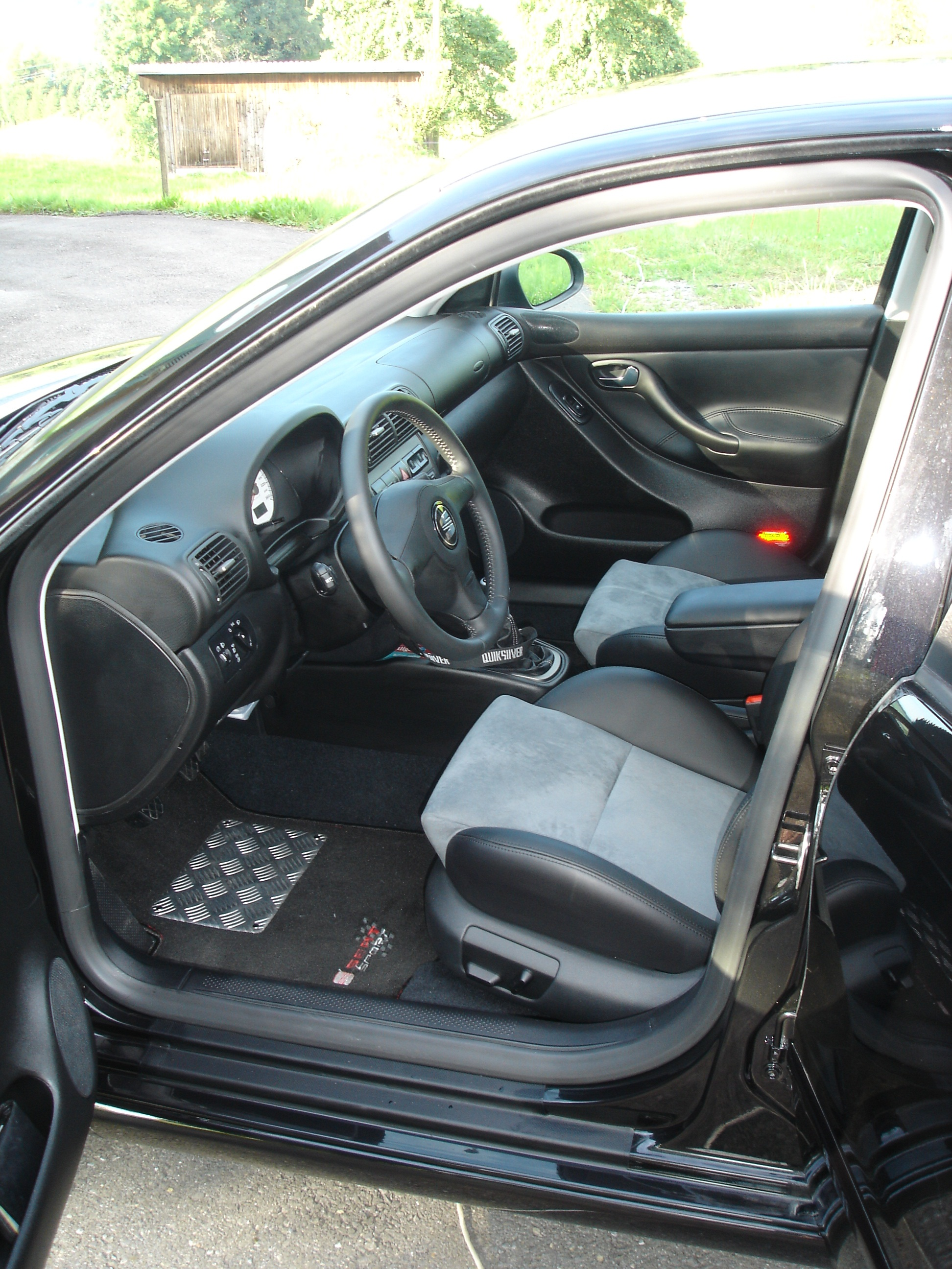 SEAT Leon Mk1 driver's seat